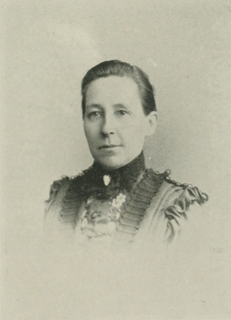 one of the Women of the Century